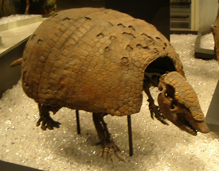 Holmesina occidentalis fossil at Royal Ontario Museum